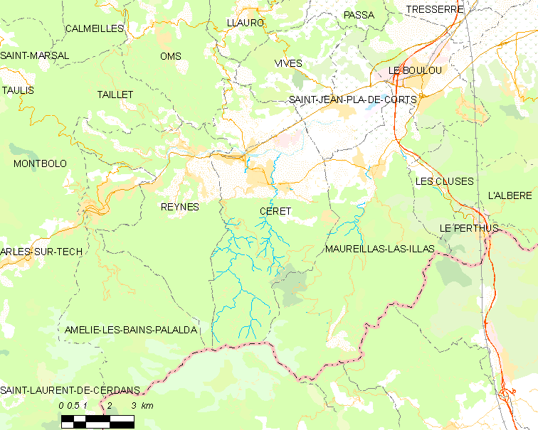 Map of French municipality